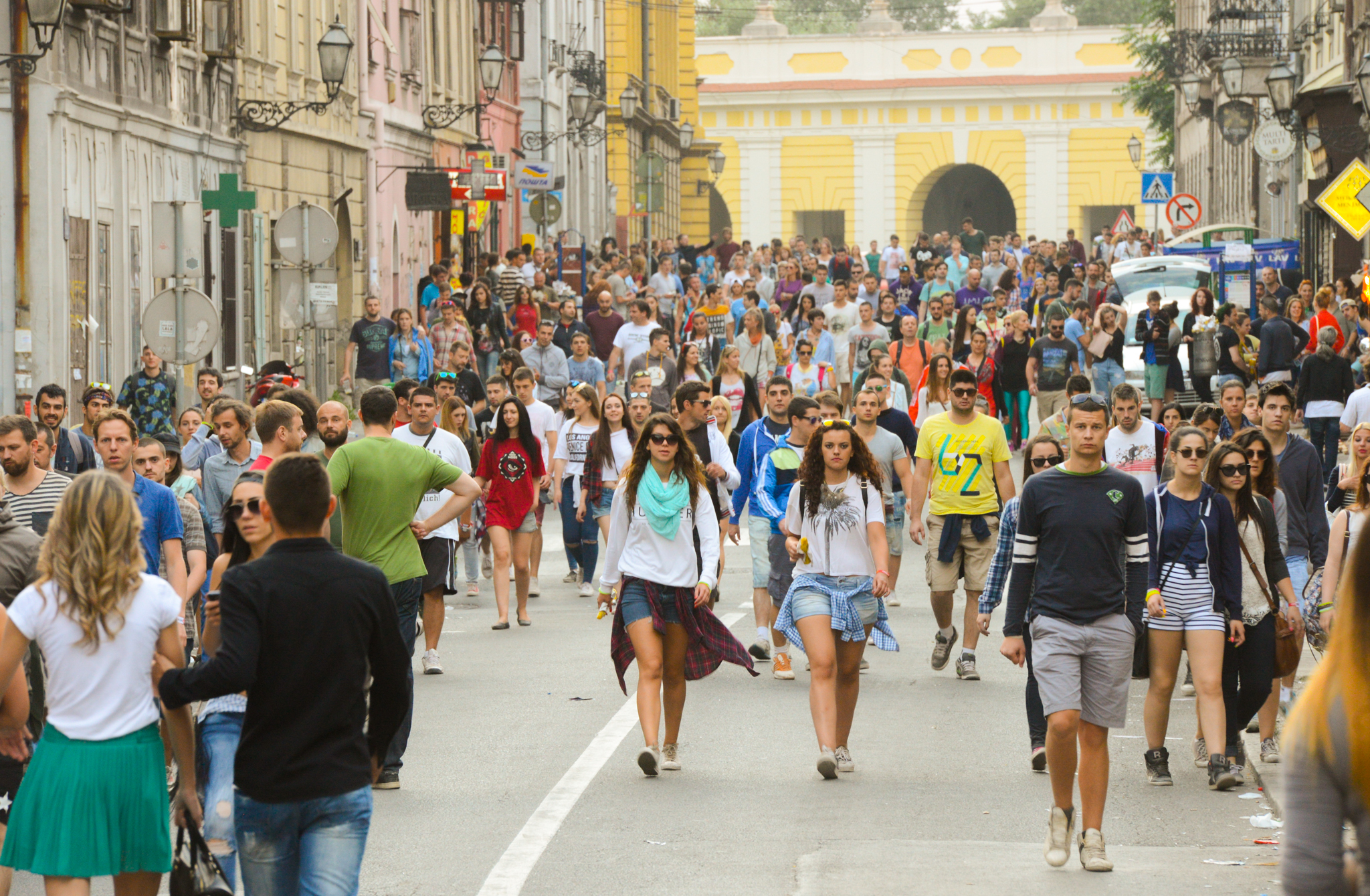 Crowd, Petrovaradin Fortress, EXIT Festival 2015.